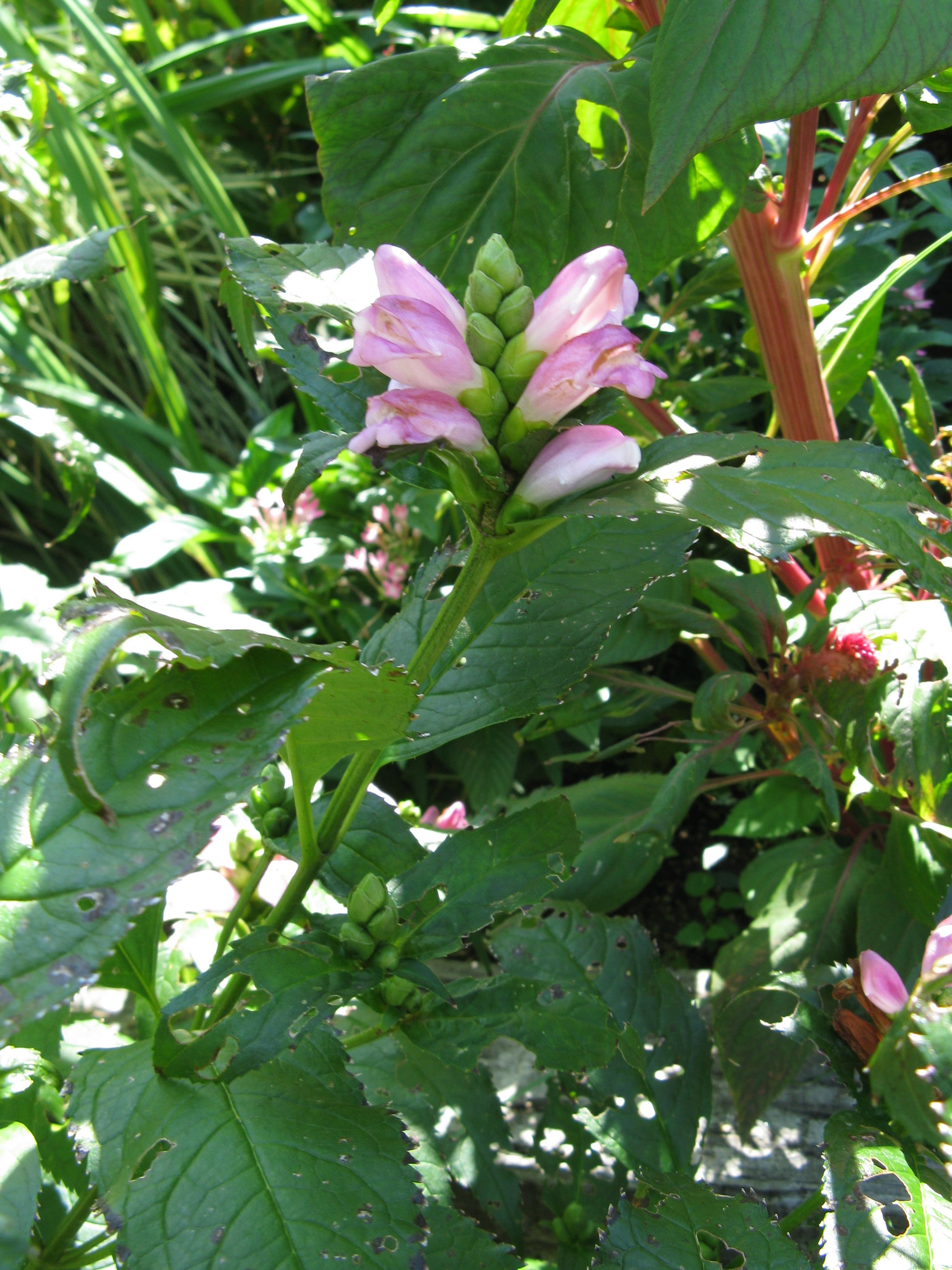 Chelone lyonii